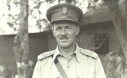 Portrait of Brigadier (later Lieutenant General Sir) Ragnar Garrett, Brigadier General Staff I Australian Corps Headquarters in Queensland Australia